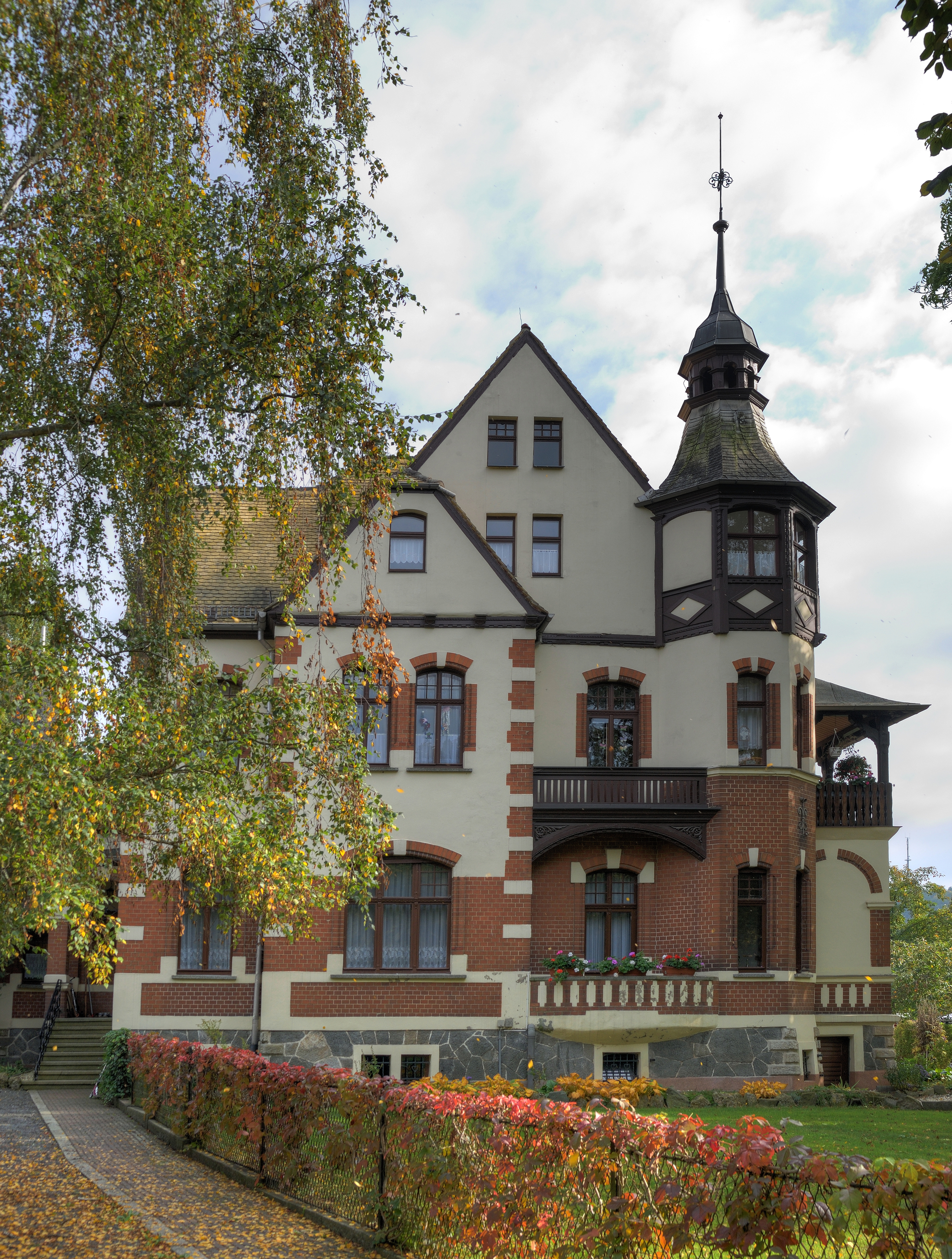 Villa Rothe at Liebschwitzer Straße 129 in Gera, Germany; built in 1899/1900 by architect Carl Zaenker